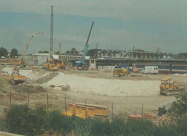 Ashford International Station construction 1994 Looking towards the A2042 road bridge over the railway with the tower of the town's parish church visible on the right hand side of the picture